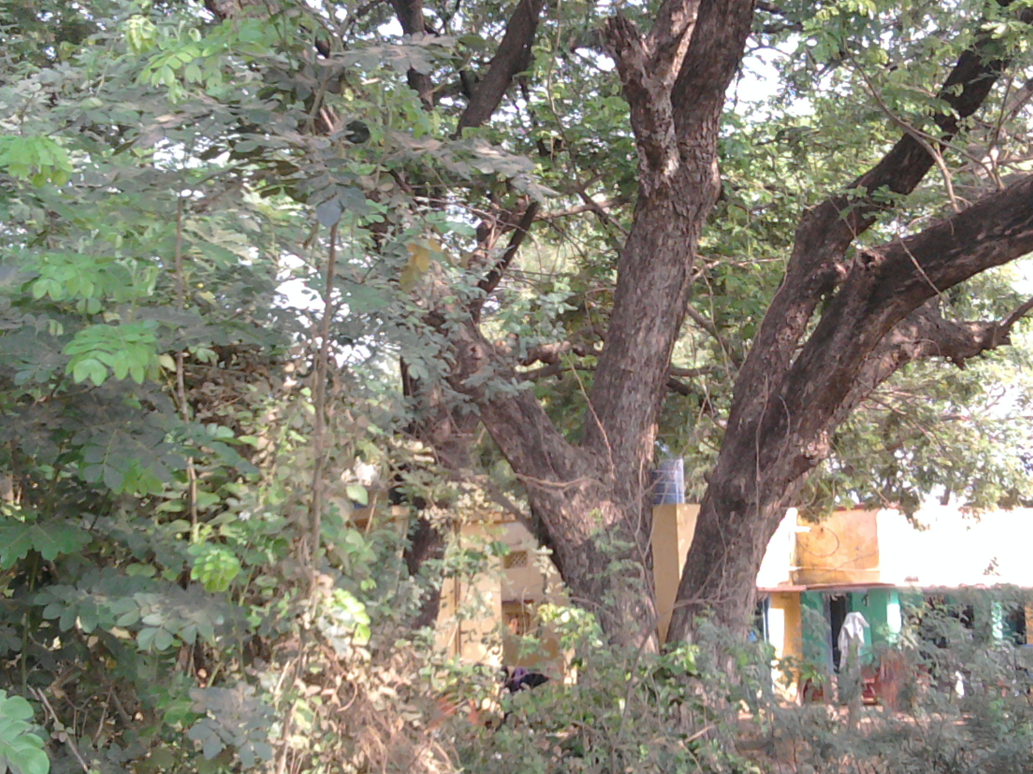 Albizia saman (Raintree)